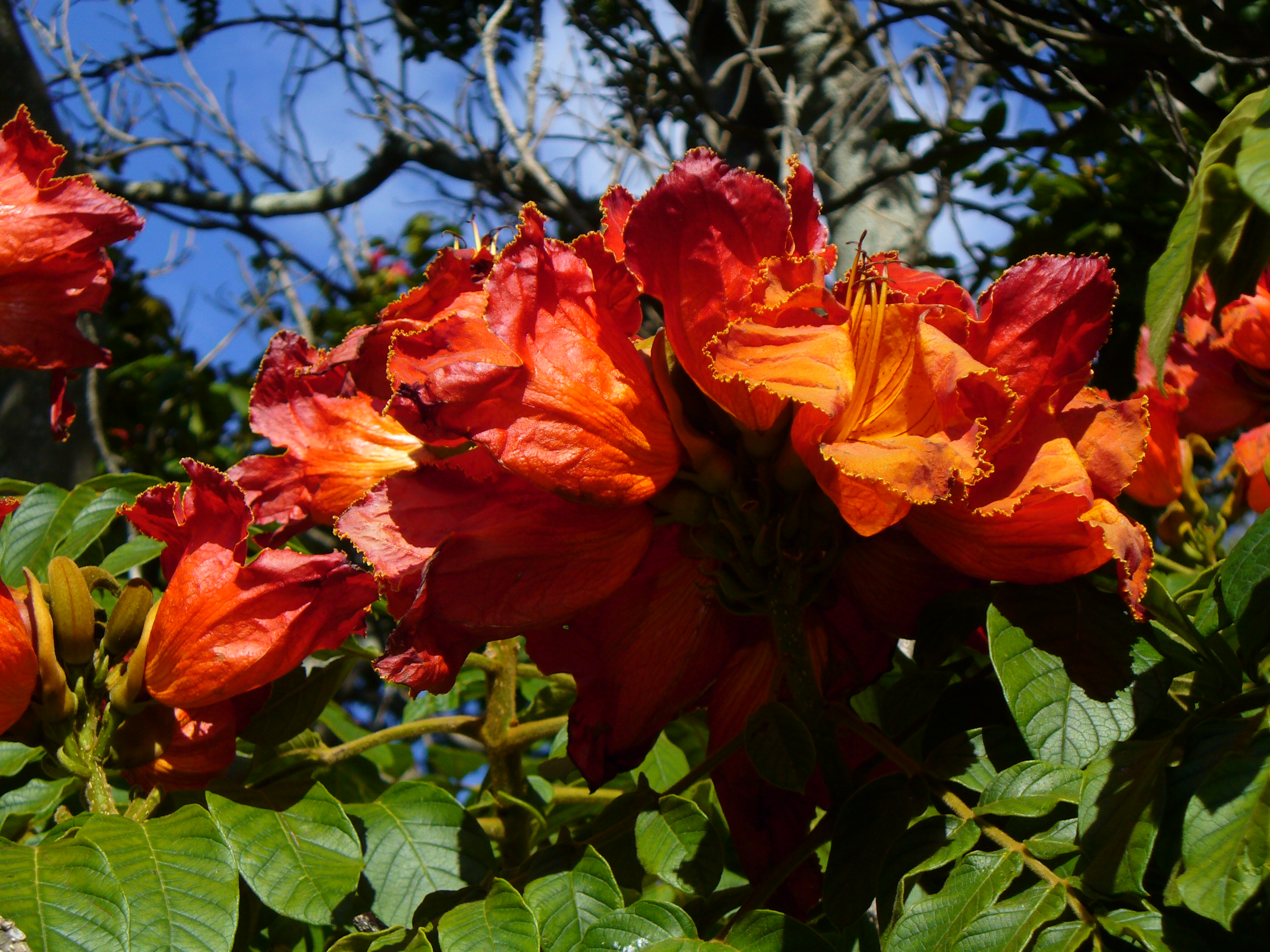 Flowers African flame tree Spathodea campanulata